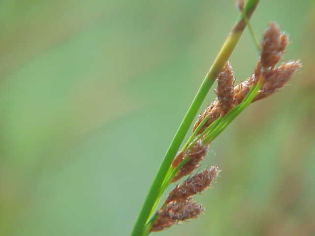 Species: Restio tetraphyllus Family: Restionaceae Image No. 2